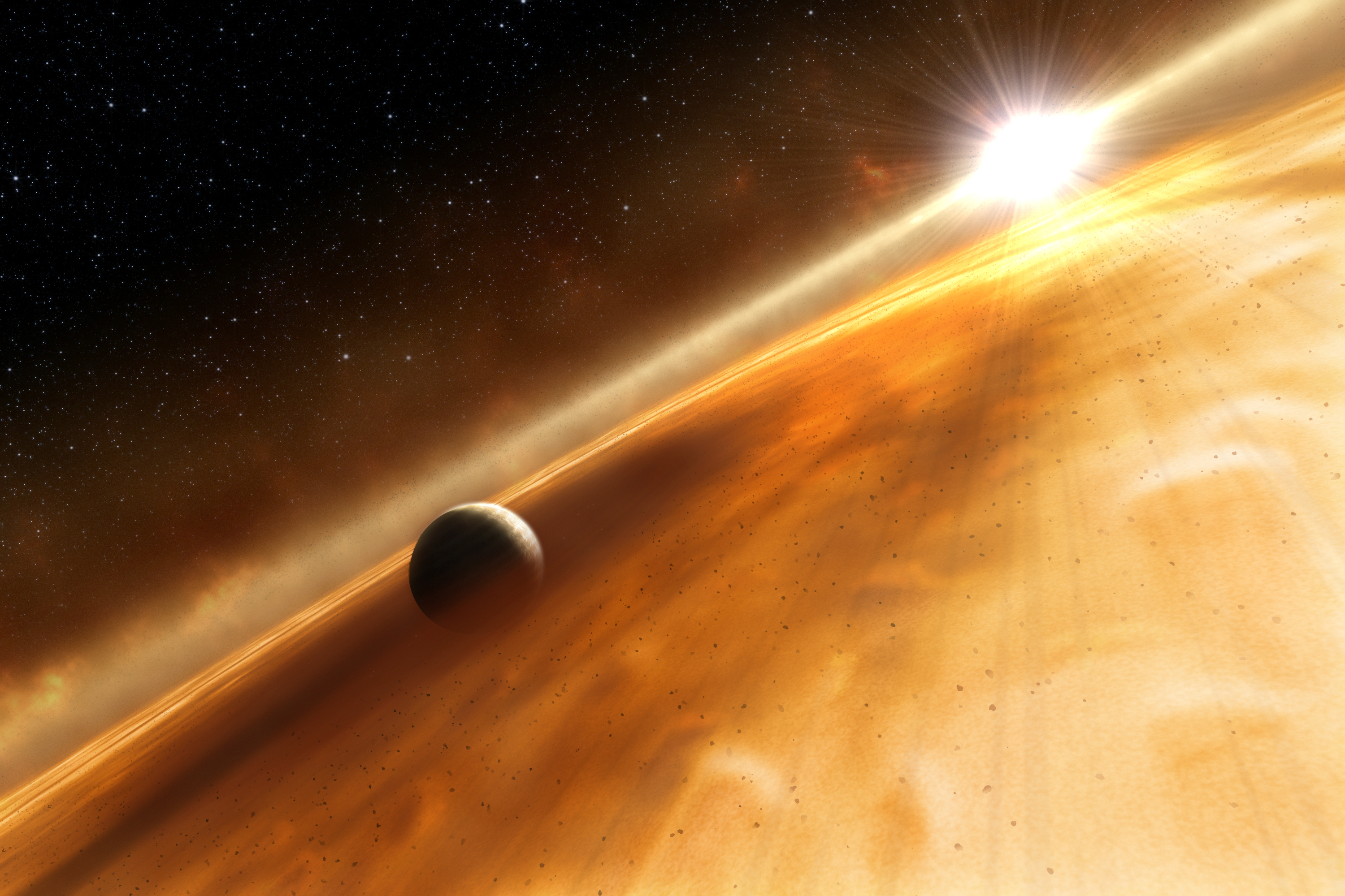 This illustration shows the newly discovered planet, Fomalhaut b, orbiting its sun, Fomalhaut. A structure comprised mostly of brown and gold colors surrounds Fomalhaut b. This structure is a Saturn-like ring that astronomers say may encircle the planet. Fomalhaut also is surrounded by a ring of material. The edge of this vast disk is shown in the background as the curving cloud-like feature that appears to intersect the 200-million-year-old star. Fomalhaut b lies 1.8 billion miles inside the disk's inner edge. The planet completes an orbit around Fomalhaut every 872 years.